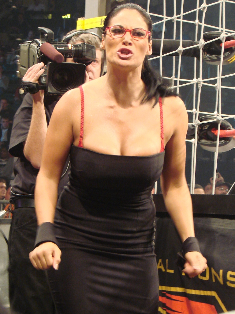 Traci Brooks at Lockdown 2007 in Family Arena, Saint Charles, Missouri.